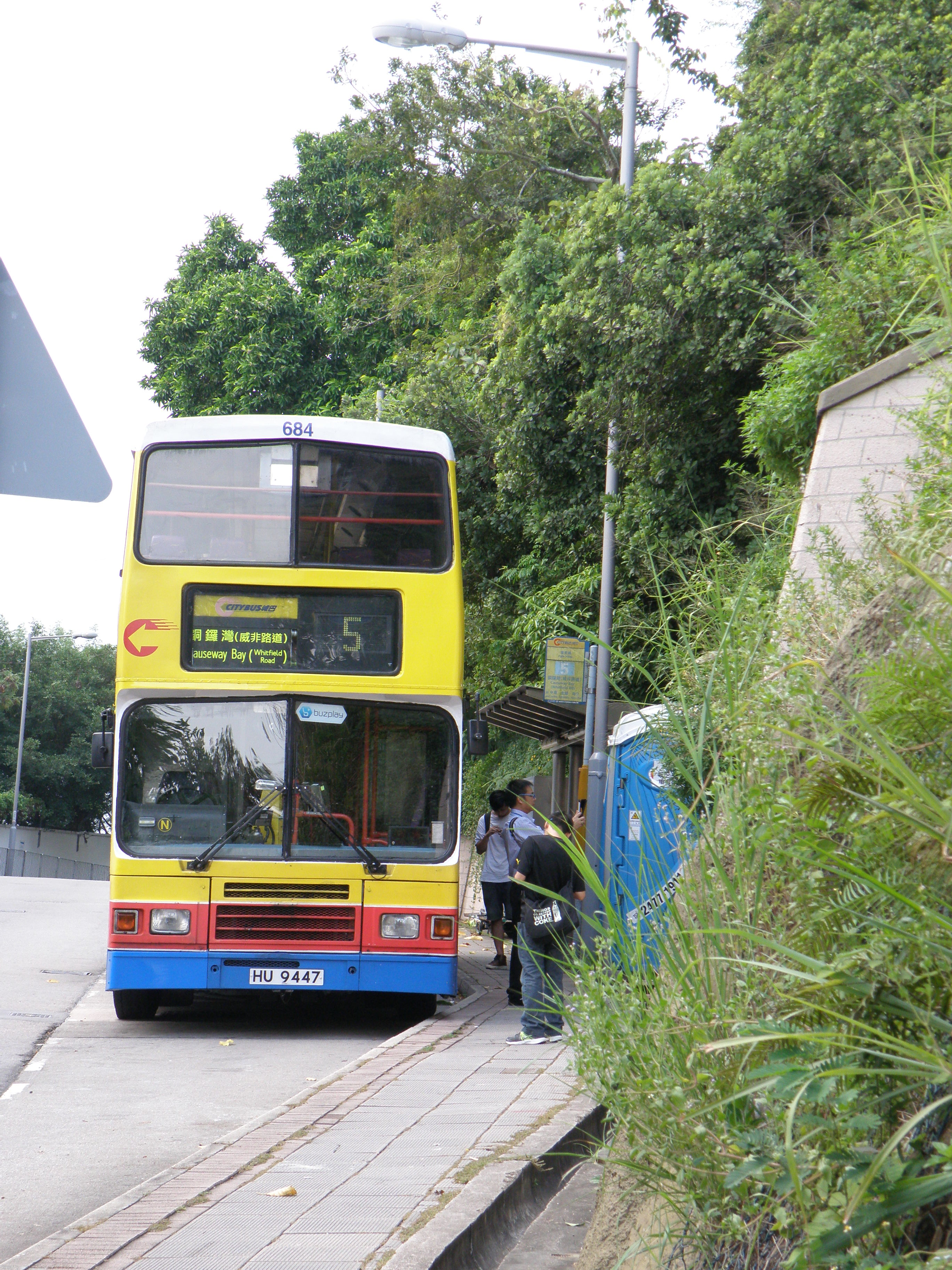 Mount Davis Bus Terminus in Mount Davis, Hong Kong.